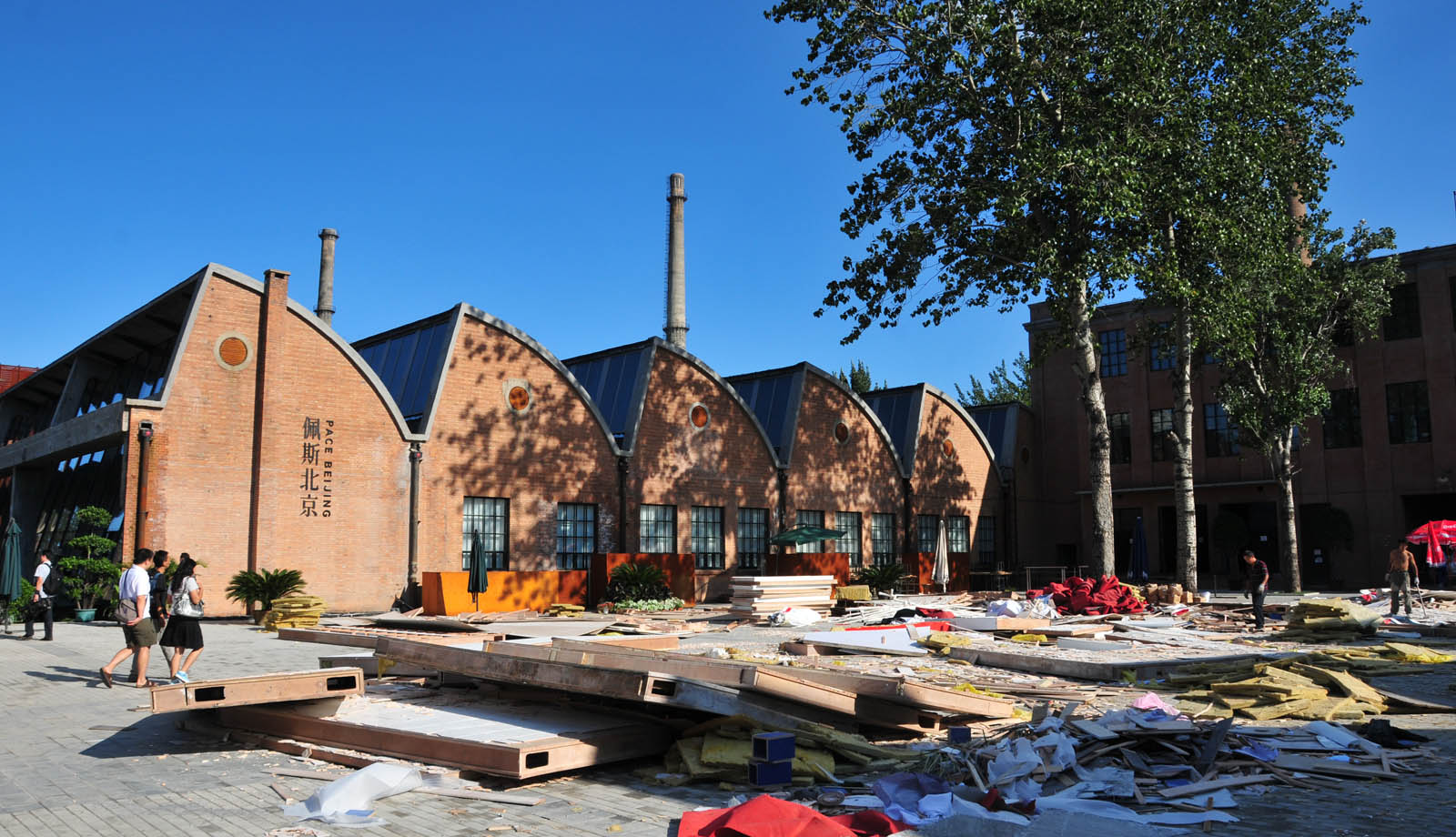 The 798 Art District in Beijing